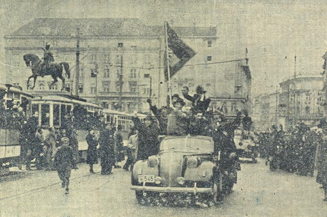 ustaša group in Zagreb, april 1941